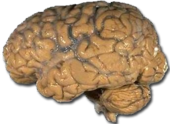 NIH image of human brain